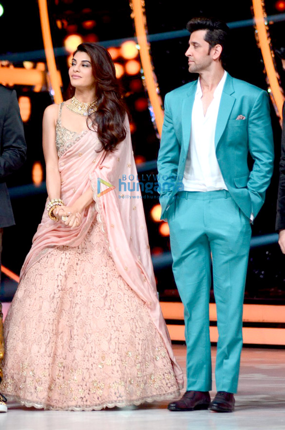 Promotion of ‘Kaabil’ on the sets of Jhalak Dikhhla Jaa